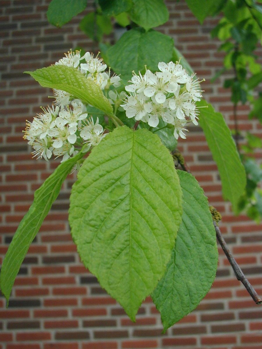 Description: Prunus maackii, flowers and leaves. Source: Own photo, taken in Jutland, May 2002. Author: Sten Porse Removed watermark read: Sten Porse 05-2002